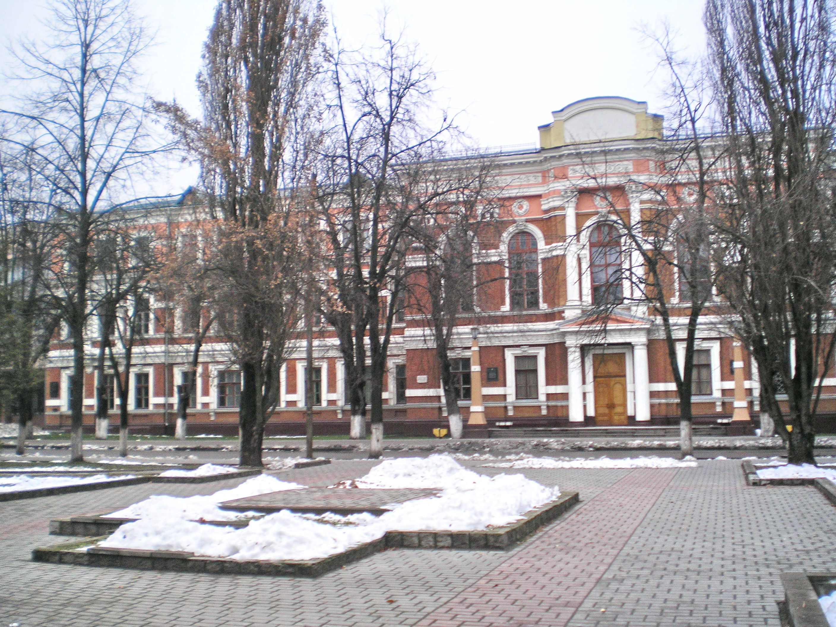 Byelorussian State University of Transport (Gomel)